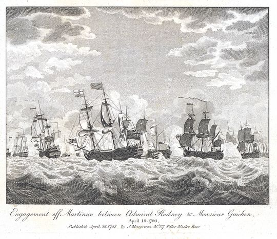 Battle of Martinique, April 17, 1780.